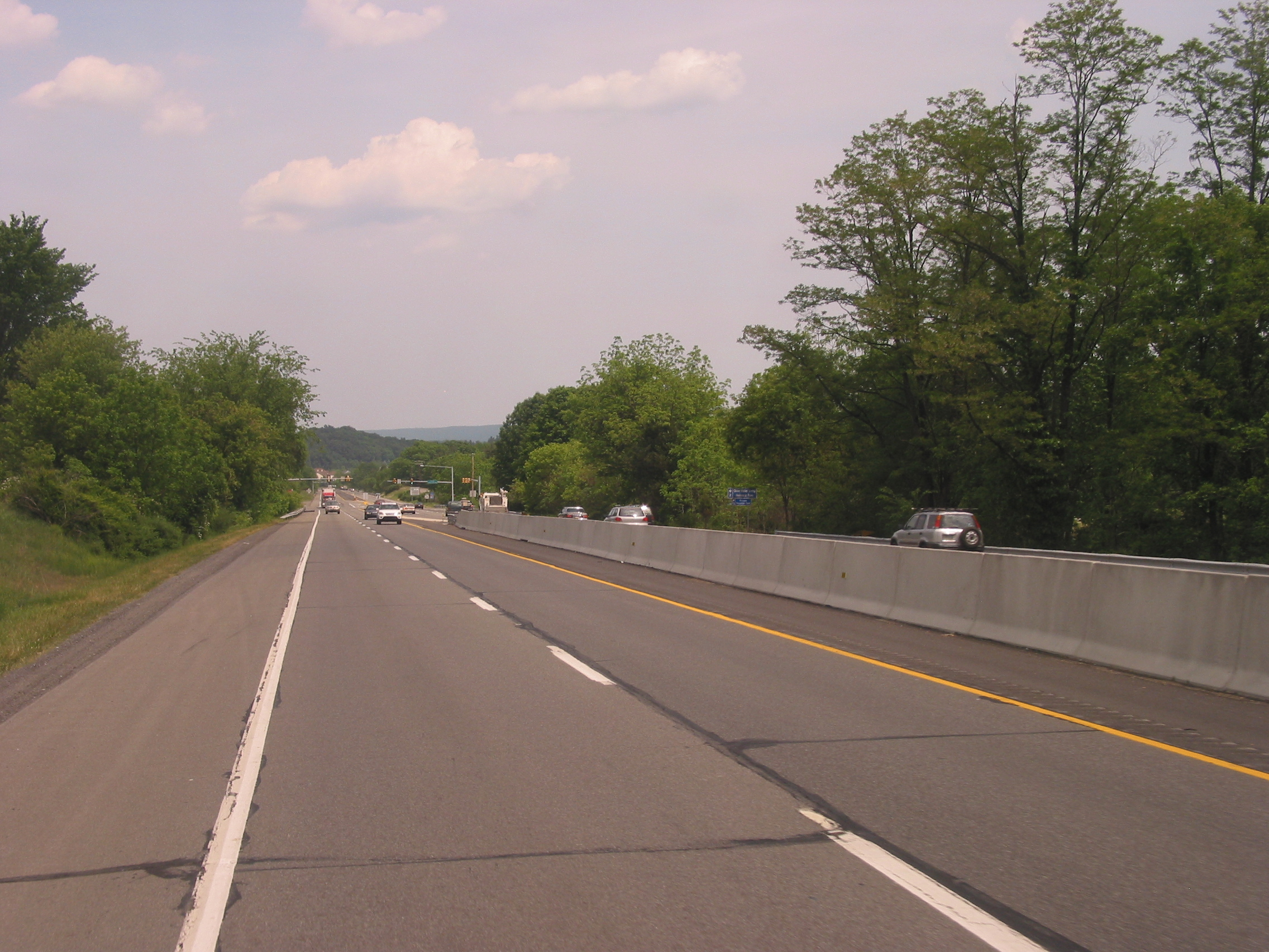 An at-grade intersection (note the traffic light) on a freeway portion of U.S. Route 209 between Pennsylvania Route 33 and Interstate 80.